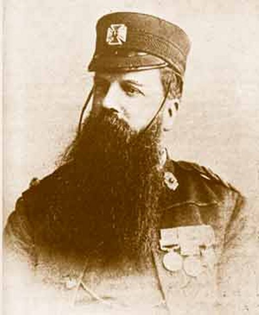 George Smith (chaplain) Image taken from a photograph in my collection dating from c.1880 Created cca. 1880, author unknown